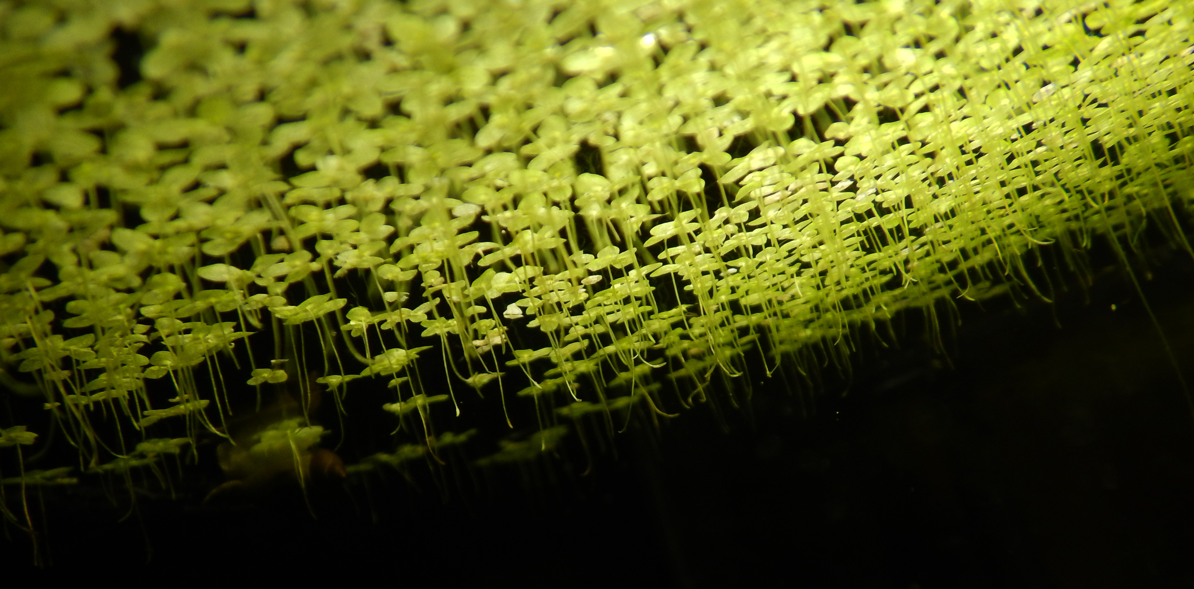 Floating mats of Lemna minor (= duckweed), of the family of Araceae and subfamily Lemnoideae (formerly family Lemnaceae), here photographed from below (subaquatic view), in an aquarium.